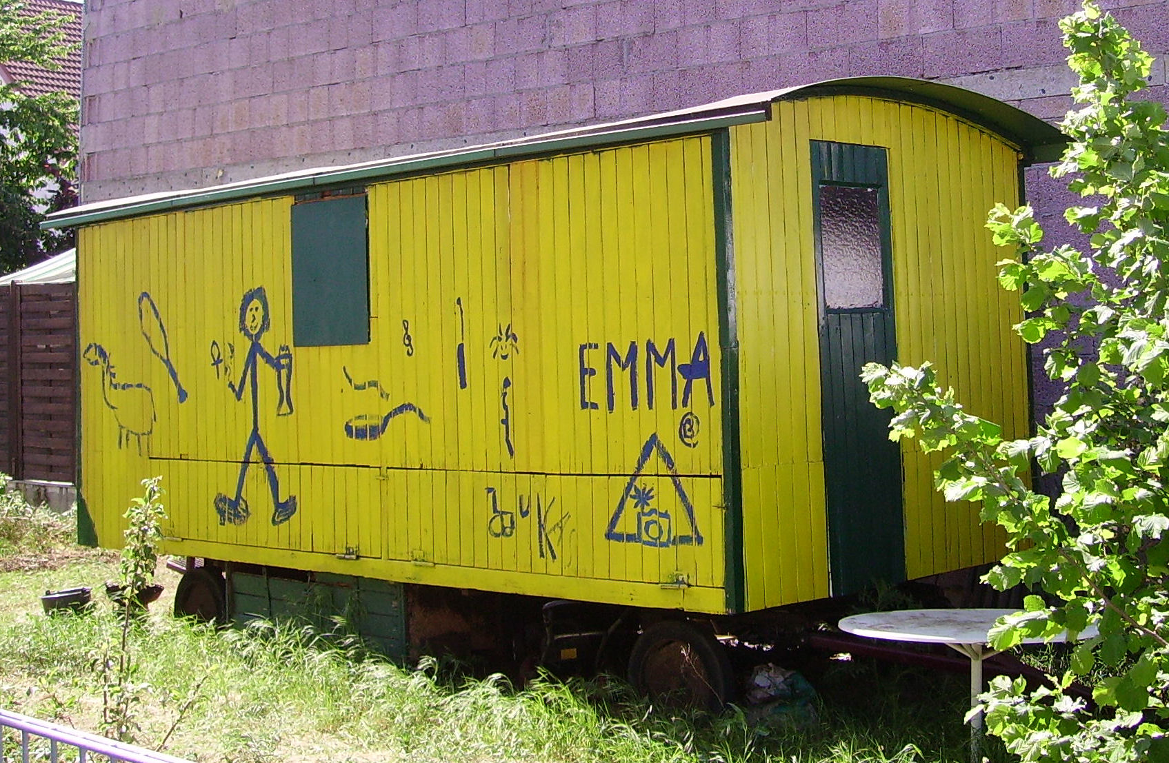 Construction trailer in Ludwigshafen, Germany